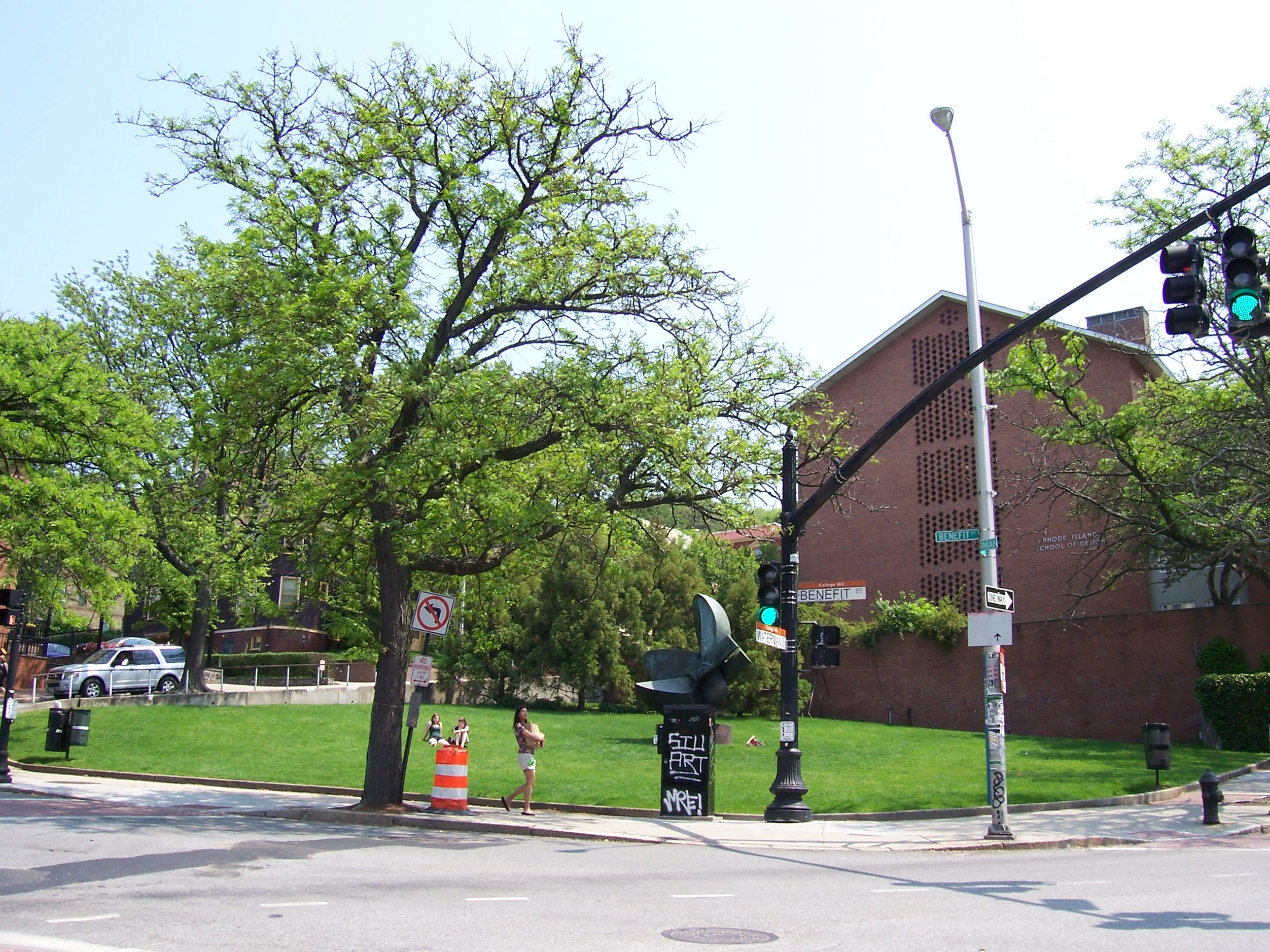 Grassy parcel on the Rhode Island School of Design campus known as "The Beach".